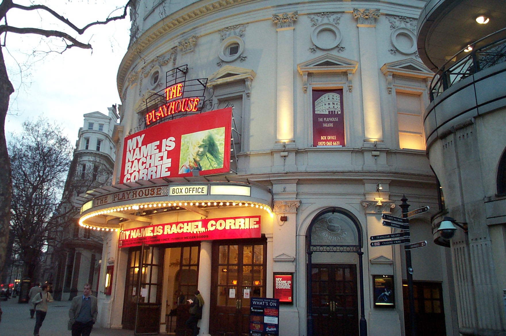 The second season of Royal Court Theatre's production of My Name Is Rachel Corrie at the Playhouse Theatre, London. I, Kaihsu Tai, took the photograph on 2006-03-29, the second performance of the season.